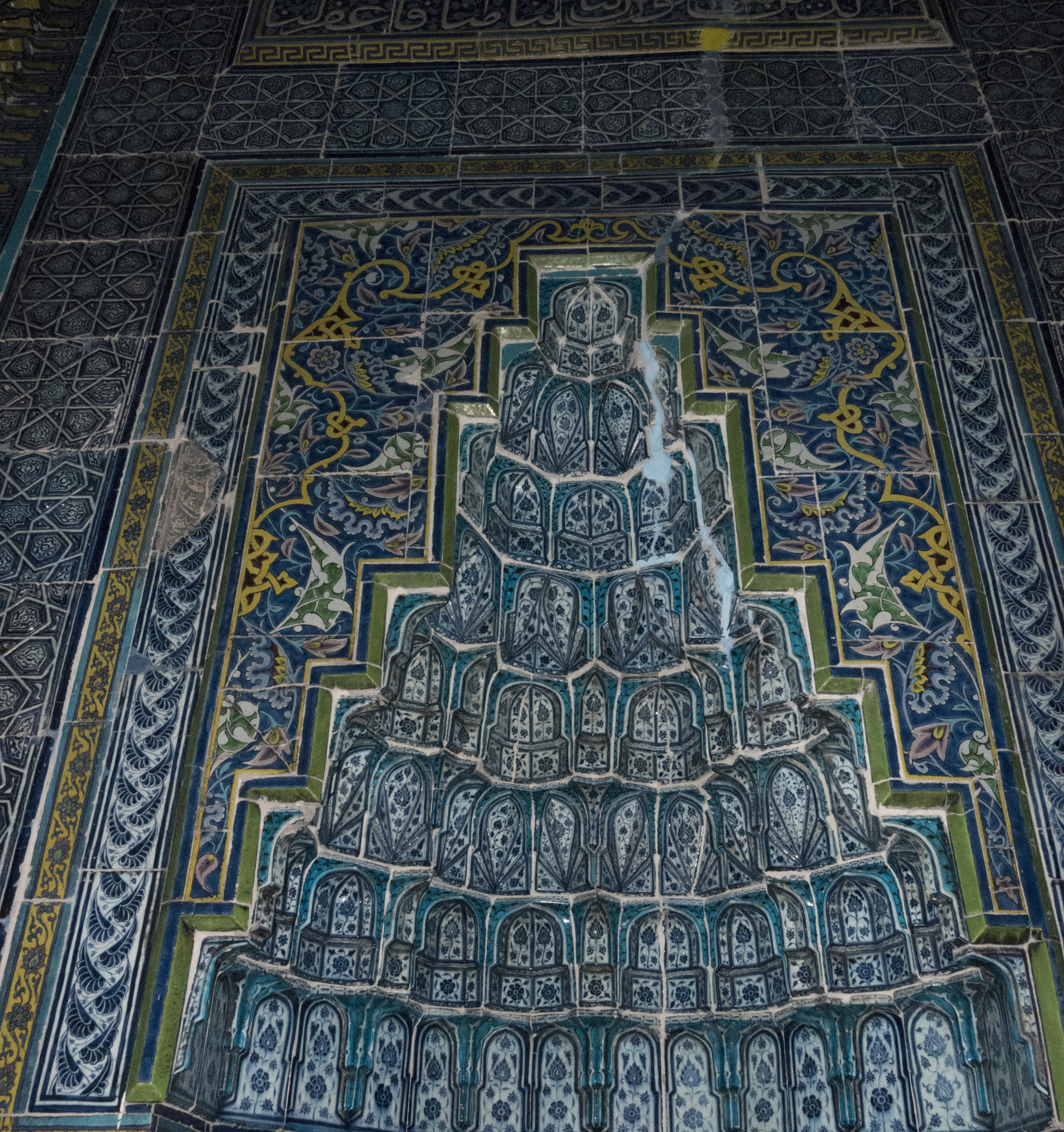 Muradiye Mosque was founded in 1435 by Murat II. It was, together with the Tekke (monastery) an important centre of Dervishes following Mevlana. It has a fine prayer niche (mihrab) in cuerda seca technique.